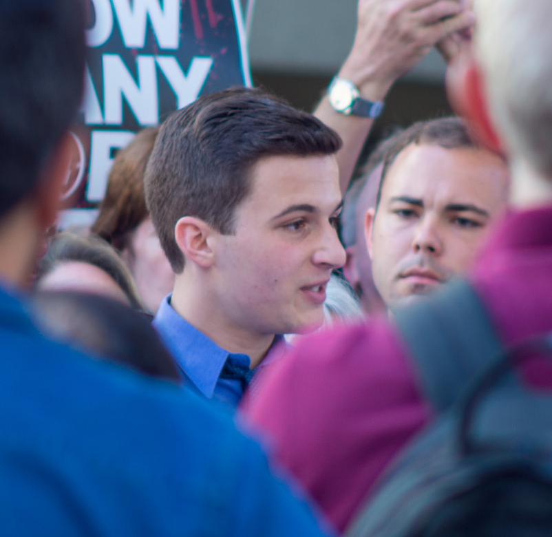 Cameron Kasky at the Rally to Support Firearm Safety Legislation in Fort Lauderdale, February 17, 2018.